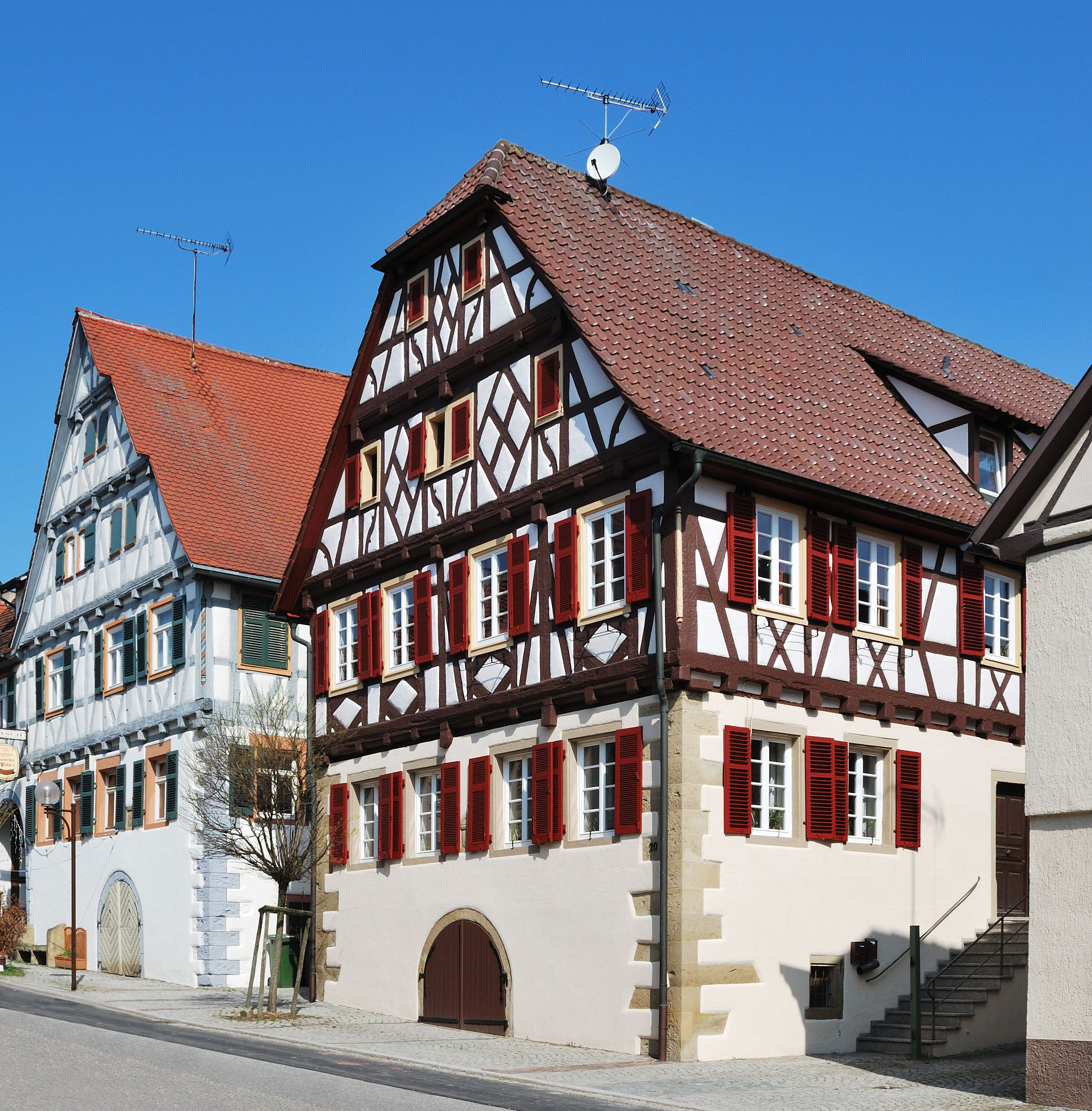 Timber framing in Knittlinger street in Lienzingen, a district of the city Mühlacker in Southern Germany.